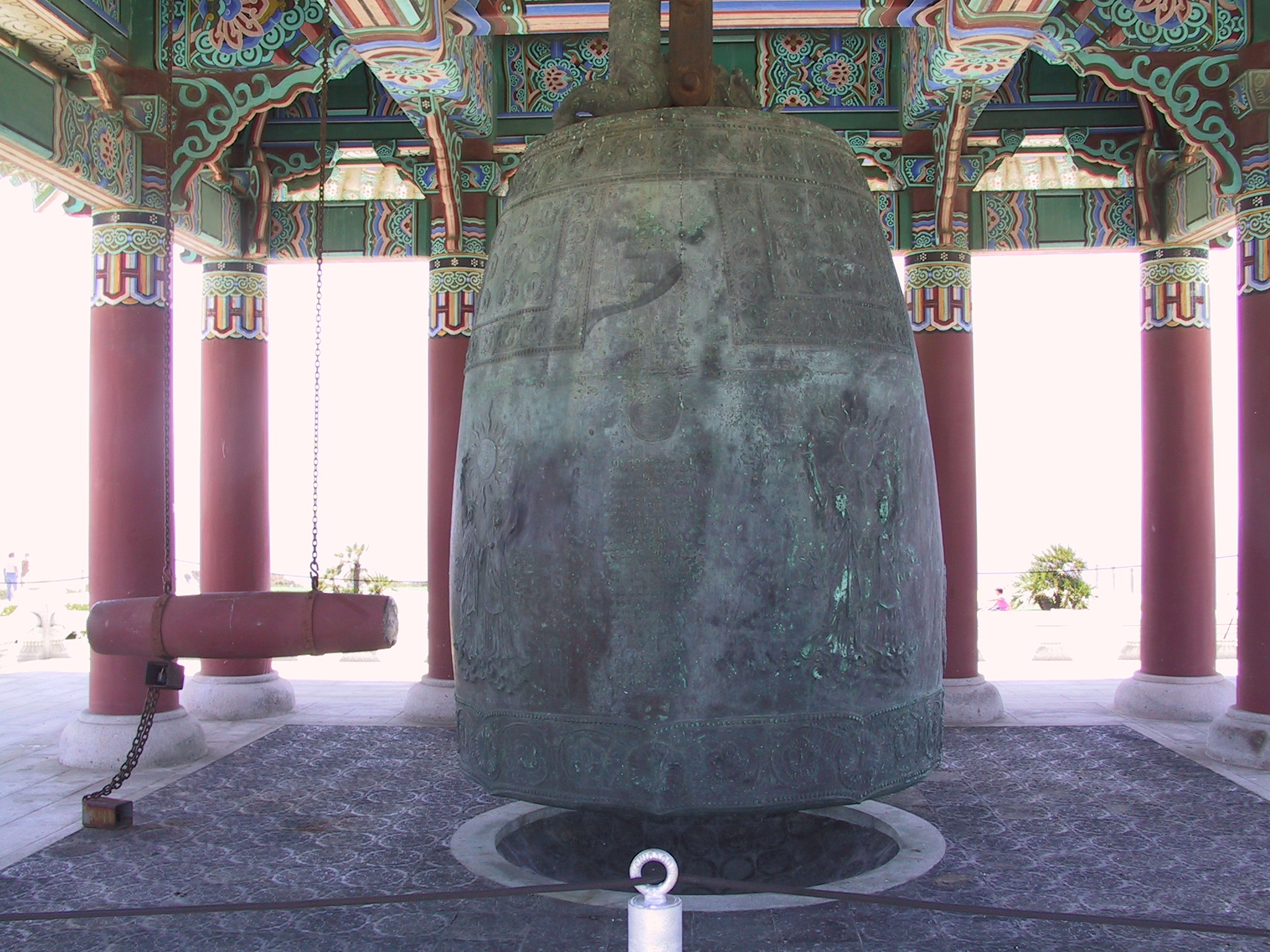 Korean Bell of Friendship in July 2004